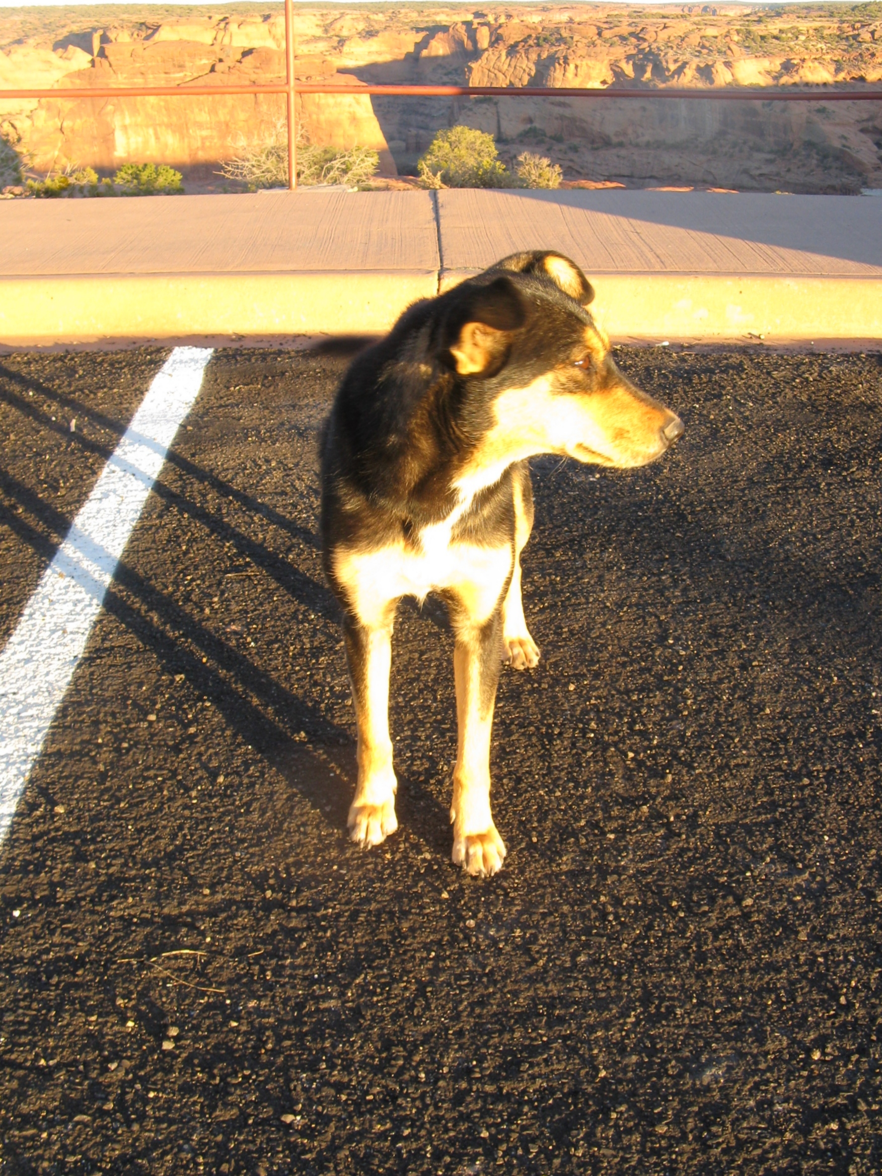 Dog in a parking lot, Canyon de Chelly Arizona